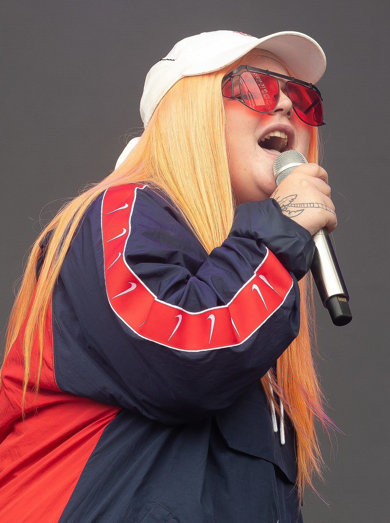 Tones And I